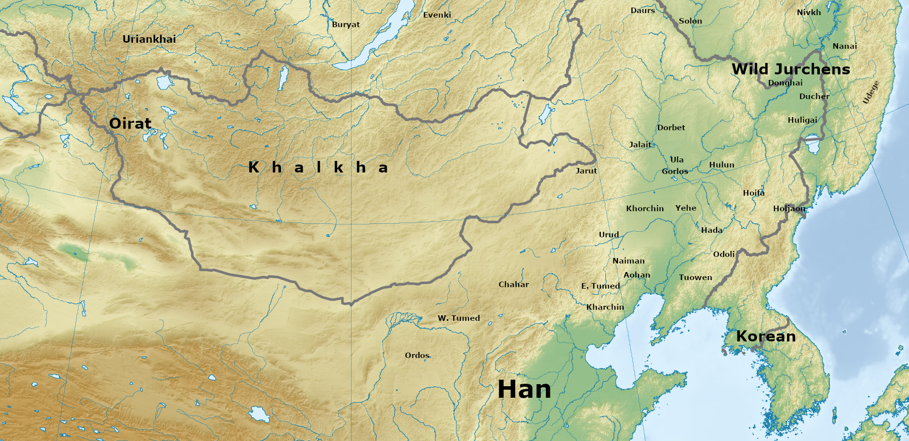 Ming era northeast asian